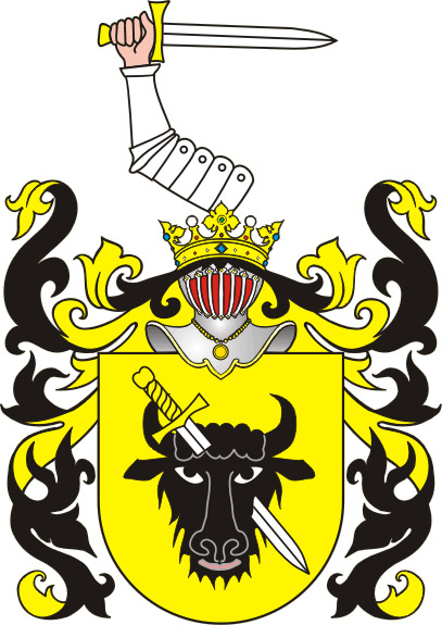 Herb Pomian Clan File:Herb Pomian.svg is a vector version of this file. It should be used in place of this raster image when not inferior. File:Herb Pomian.jpg File:Herb Pomian.svg For more information, see Help:SVG. In other languages This image was uploaded in the JPEG format even though it consists of non-photographic data. This information could be stored more efficiently or accurately in the PNG or SVG format. If possible, please upload a PNG or SVG version of this image without compression artifacts, derived from a non-JPEG source (or with existing artifacts removed). After doing so, please tag the JPEG version with Superseded|NewImage.ext and remove this tag. This tag should not be applied to photographs or scans. For more information, see BadJPEG .